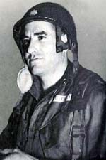 Robert G. Cole date=circa 1944